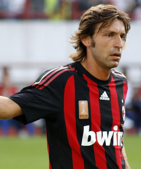 Andrea Pirlo